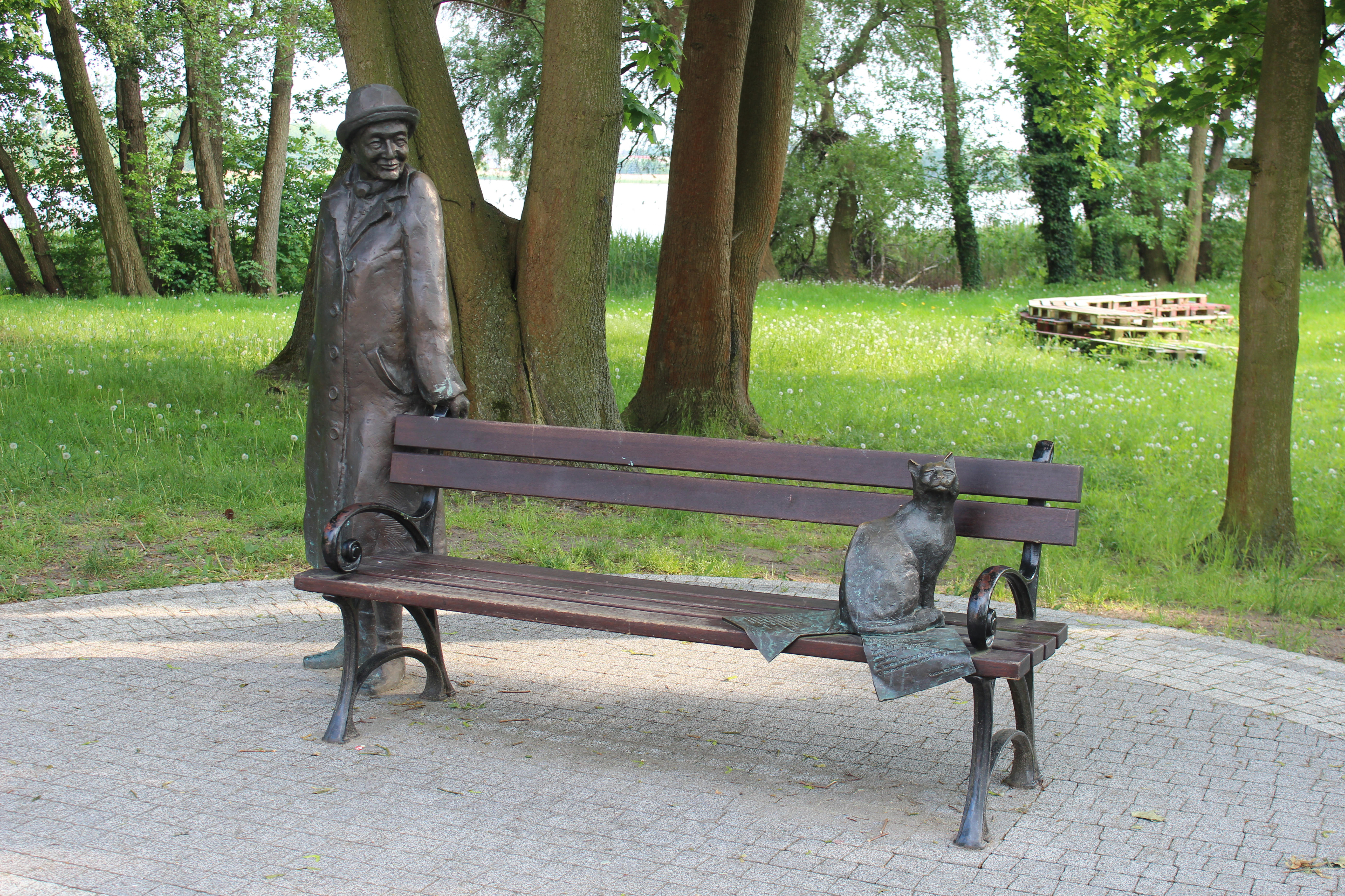 Wisława Szymborska Monument in Kórnik